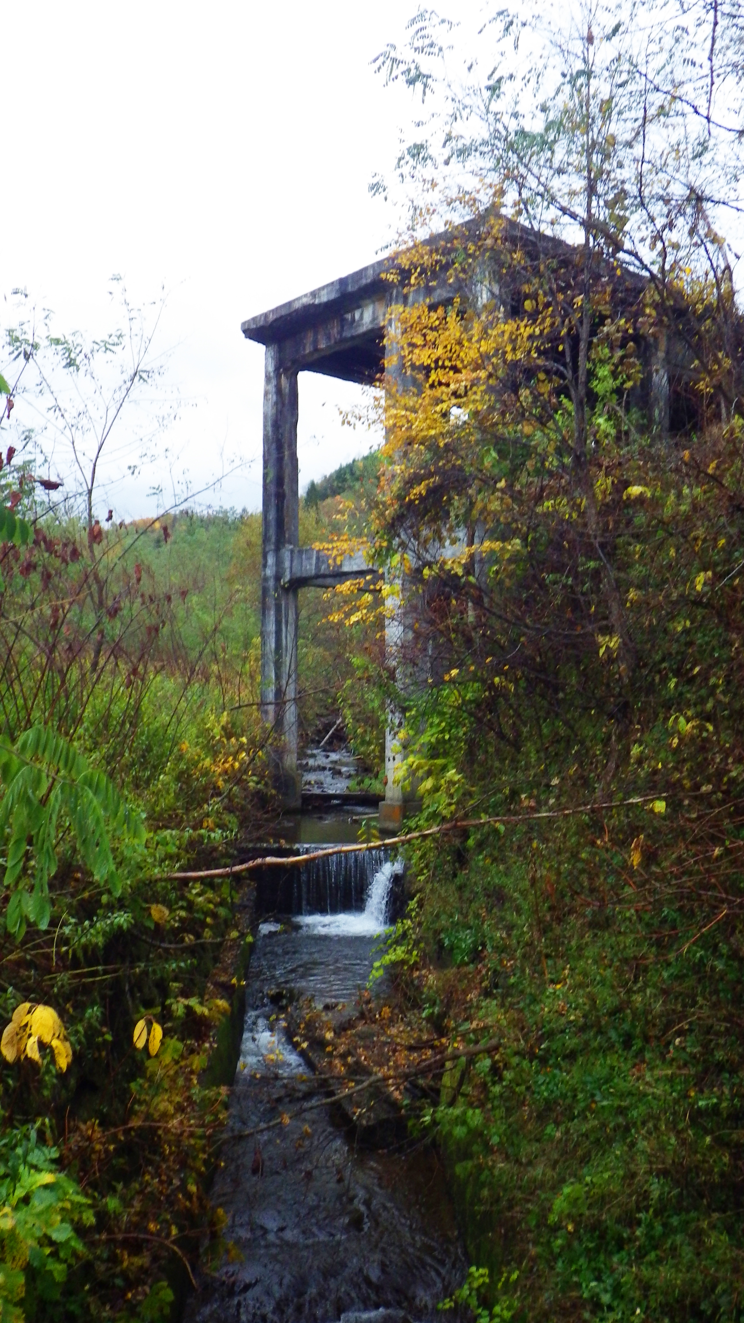 The hoisting machine of the Tokiwa-kō adit of the Hokutan Horonai Coal Mine